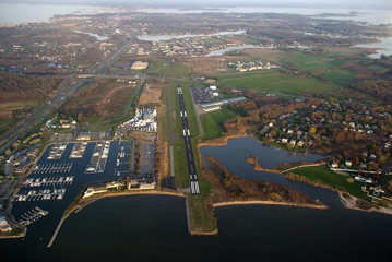 BayBridge Airport